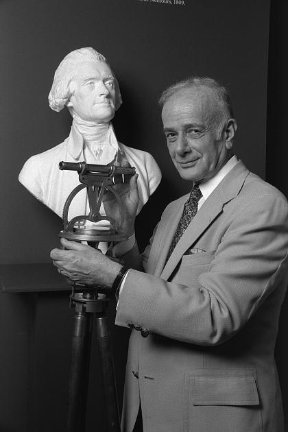 From source: Silvio Bedini, Smithsonian's keeper of rare books and curator of National Museum of American History's Thomas Jefferson exhibit, with a bust of Jefferson and his theodolite, the instrument Jefferson used to survey Monticello and other properties. Photo was featured in TORCH, June 1981